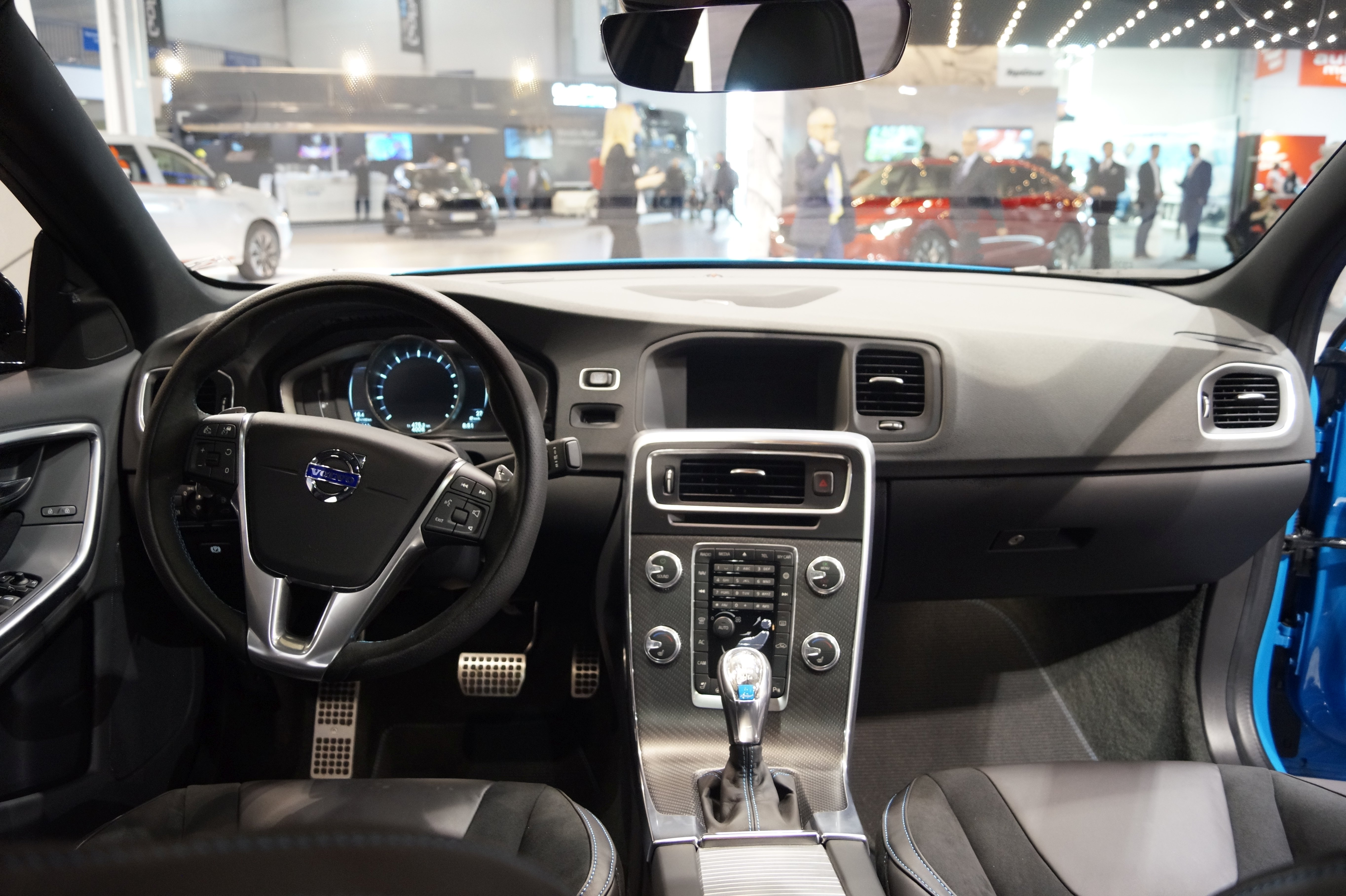 The making of this document was supported by Wikimedia Polska Association, within Wikigrant no. WG 2016-10. Wnętrze Volvo S60 Polestar na Motor Show Poznań 2016